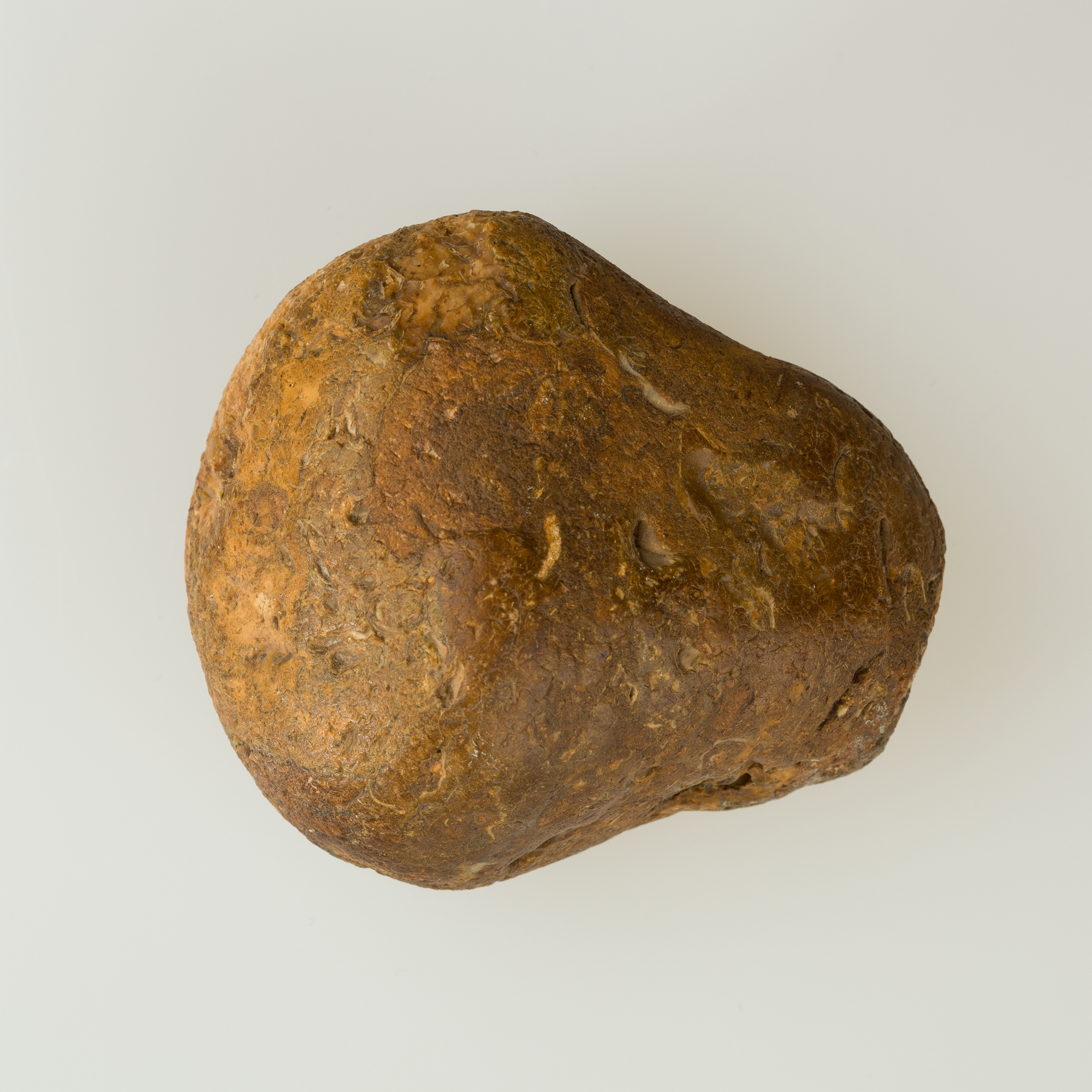 Pestle, pounder